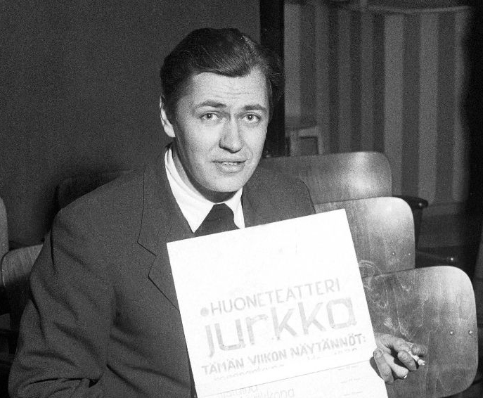 Photograph of the Finnish actor Sakari Jurkka (1923–2012).